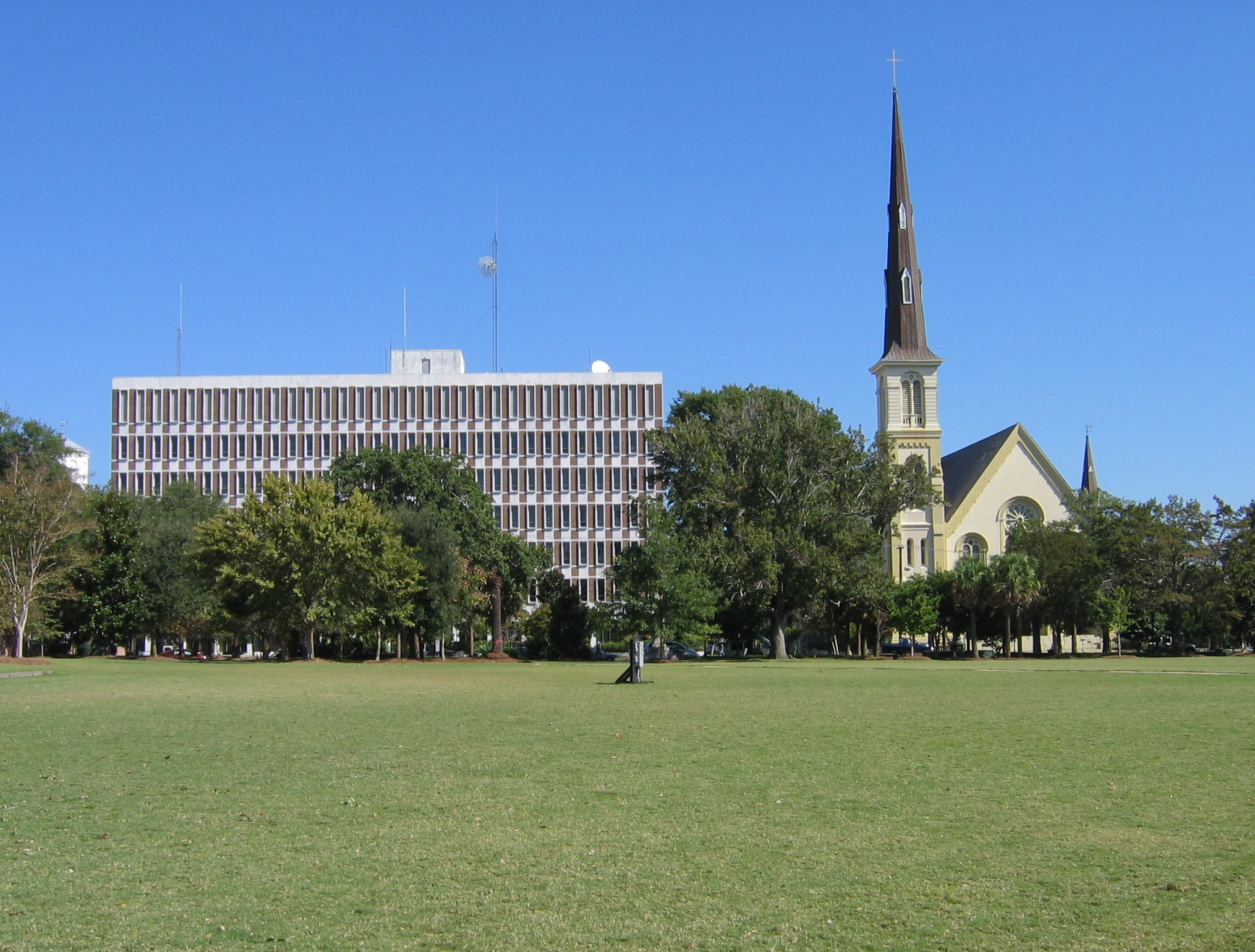 Photo by User:AudeVivere